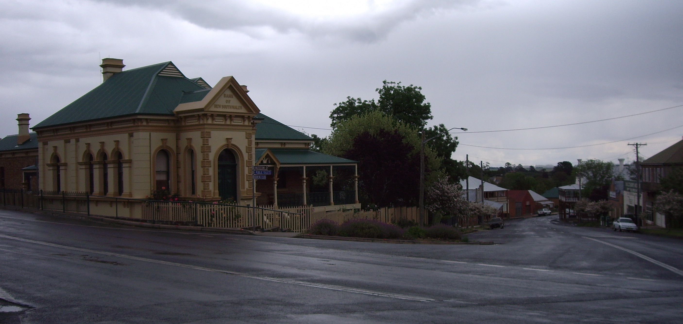 Millthorpe